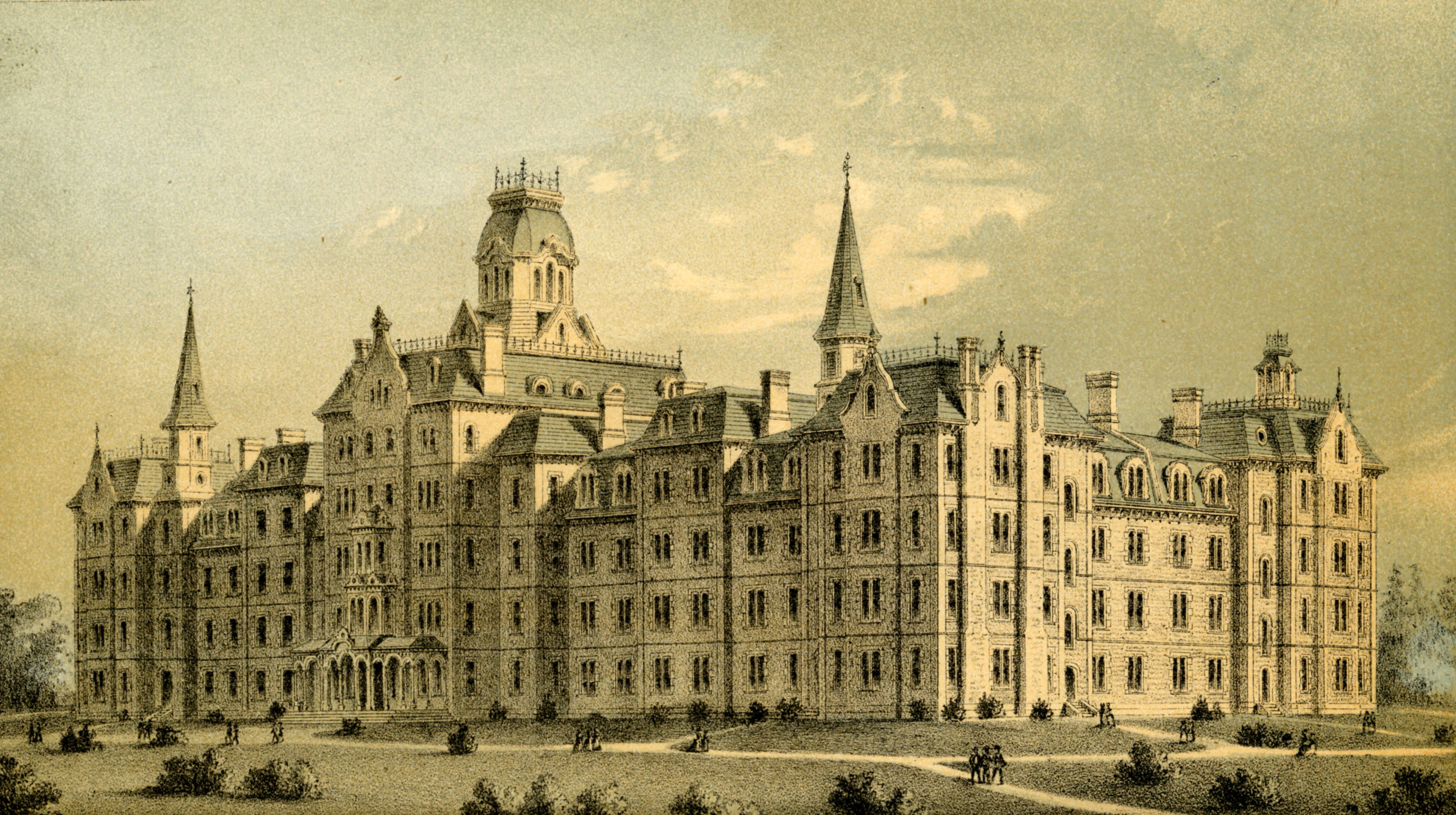 In Columbus, Ohio, published in Columbus, Ohio: Its History, Resources, and Progress (1873).